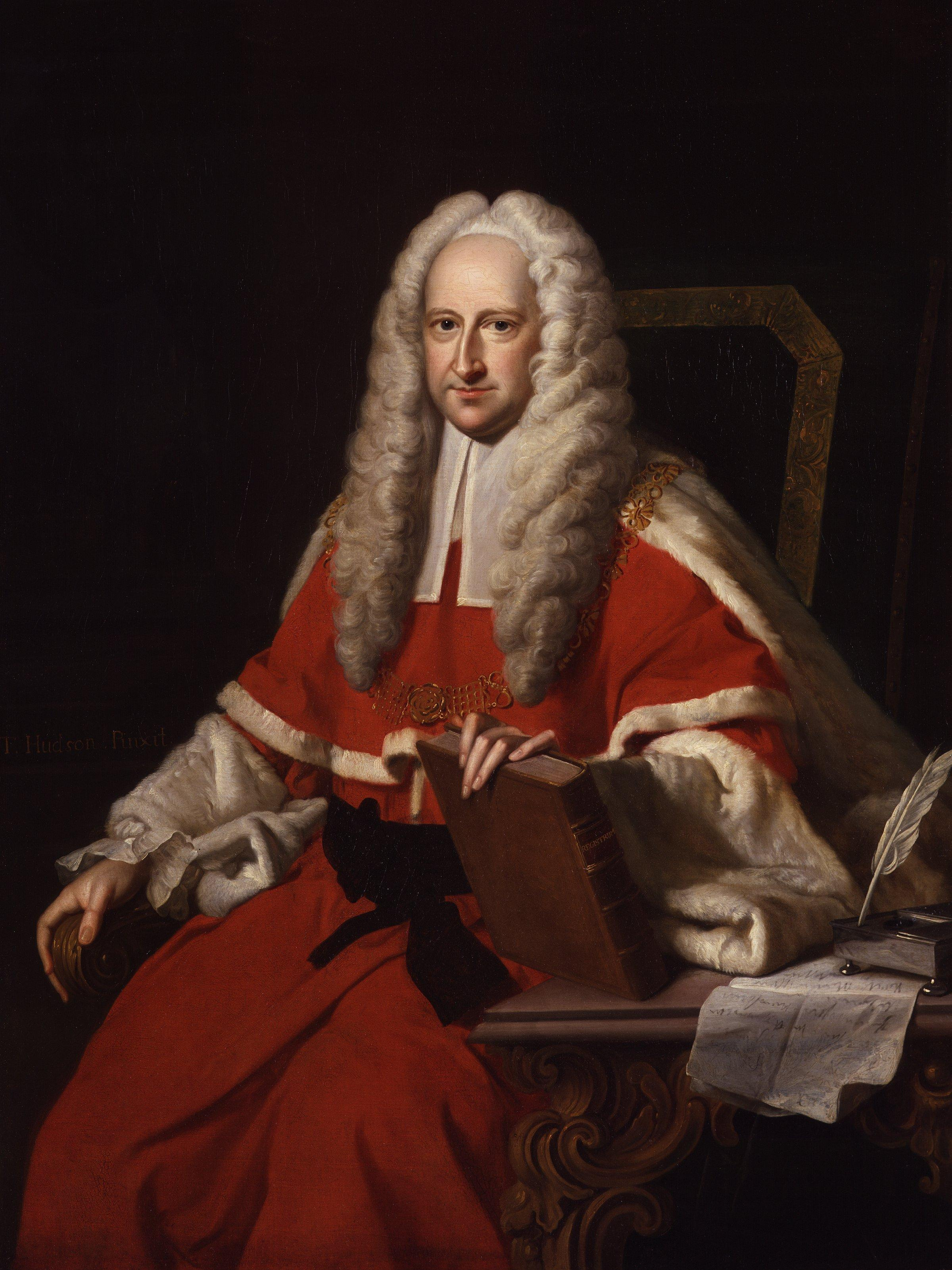 All images in this batch have been confirmed as author died before 1939 according to the official death date listed by the NPG.